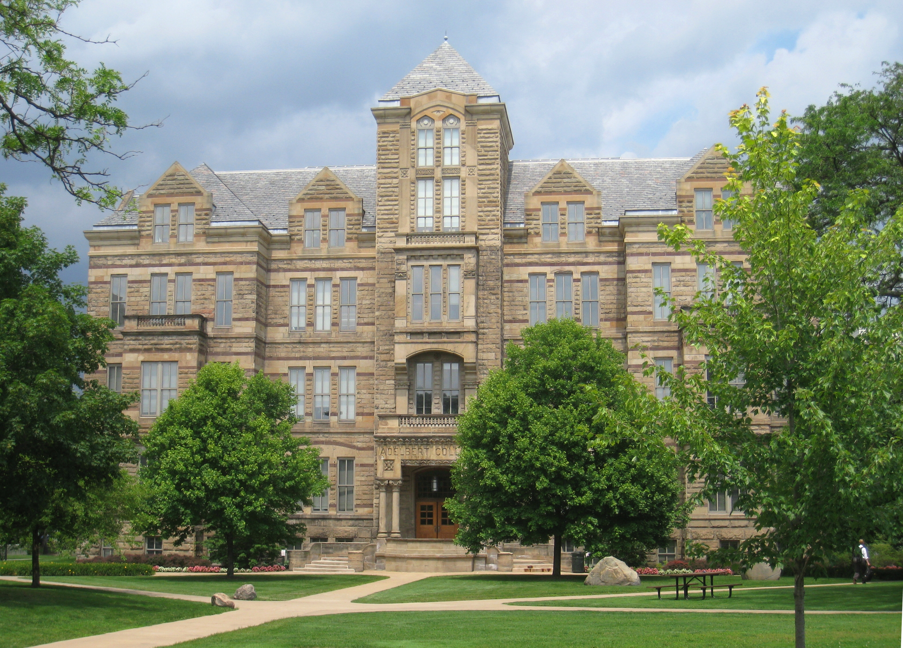 Adelbert Hall - Case Western Reserve University, Cleveland, Ohio, USA. Architect Joseph Ireland; built 1882. I took this photograph.